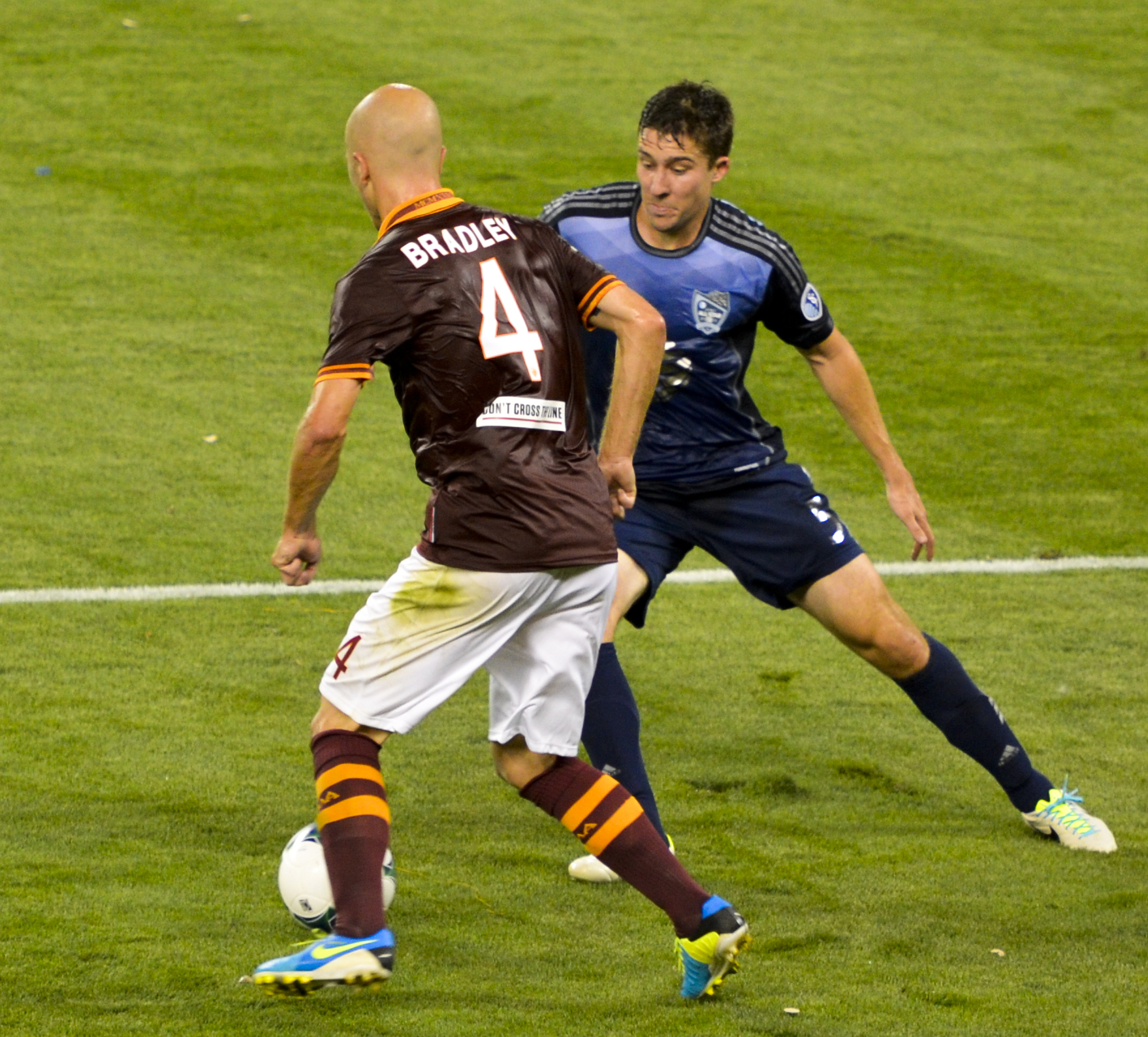 U.S. Men's National Team players battle each other with their respective clubs. Michael Bradley of A.S. Roma takes on Matt Besler of the MLS All Stars. Besler stole the ball from Bradley in the next moment.